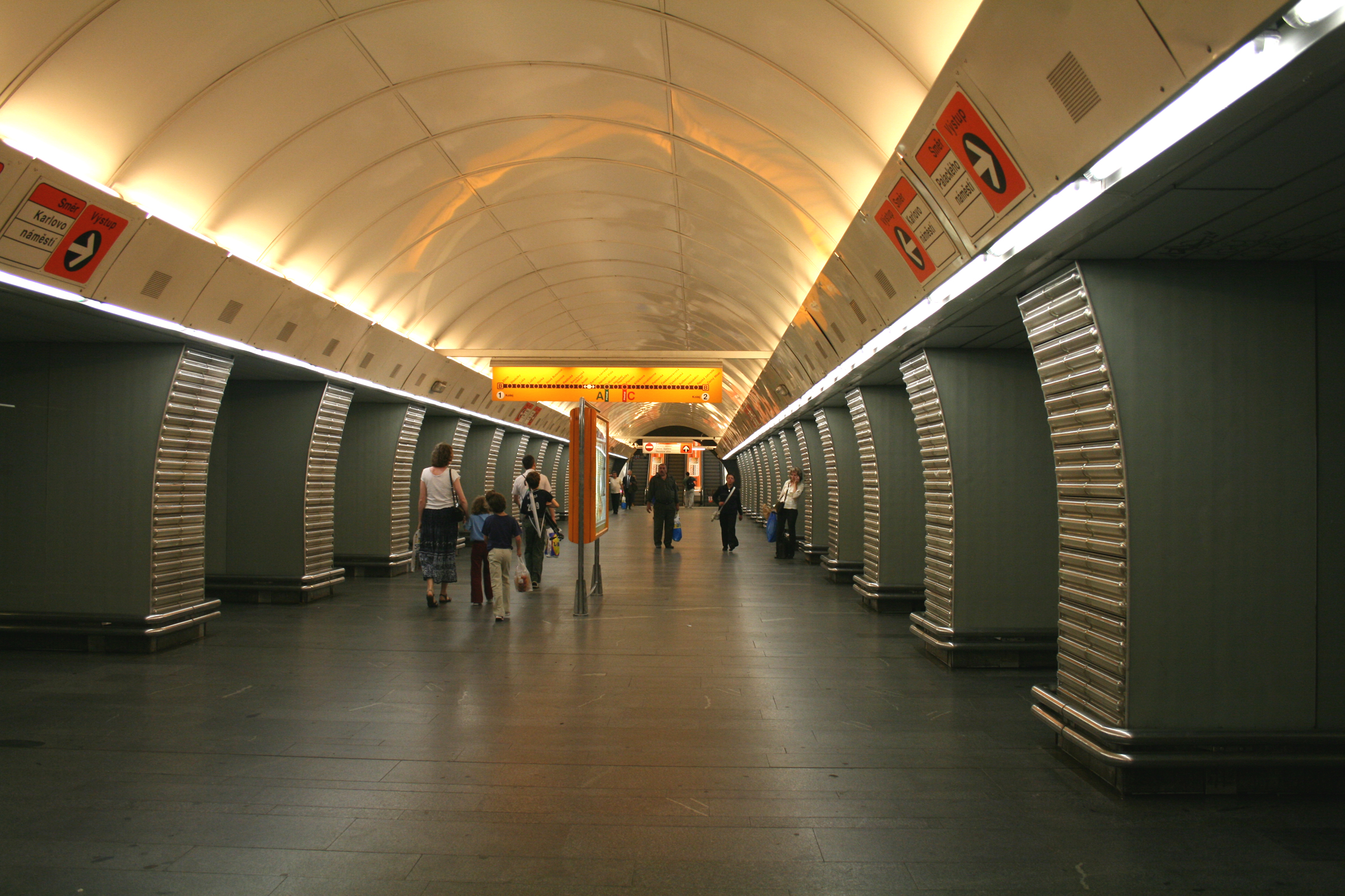 Prague metro station Karlovo Náměstí, Czech Republic